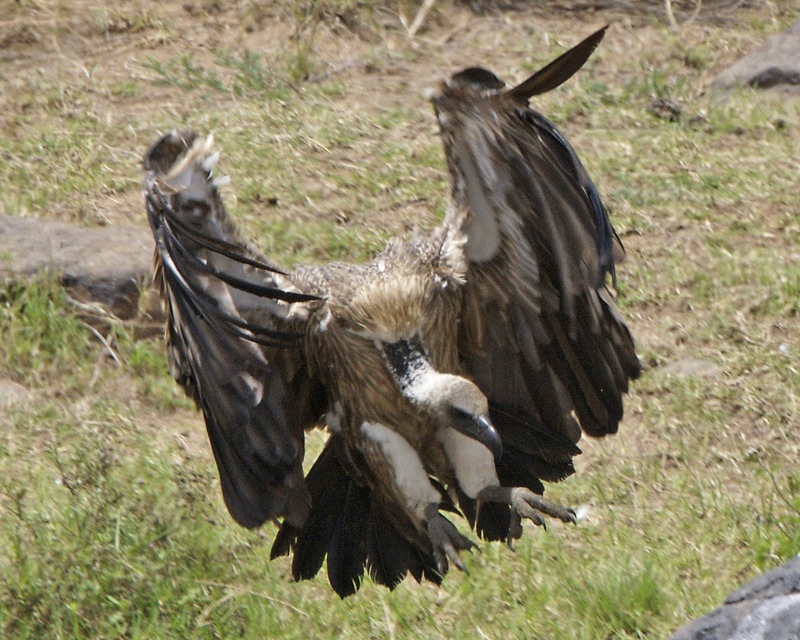 African white-backed vulture Gyps africanus Masai Mara, Kenya August 29, 2008 690V1562